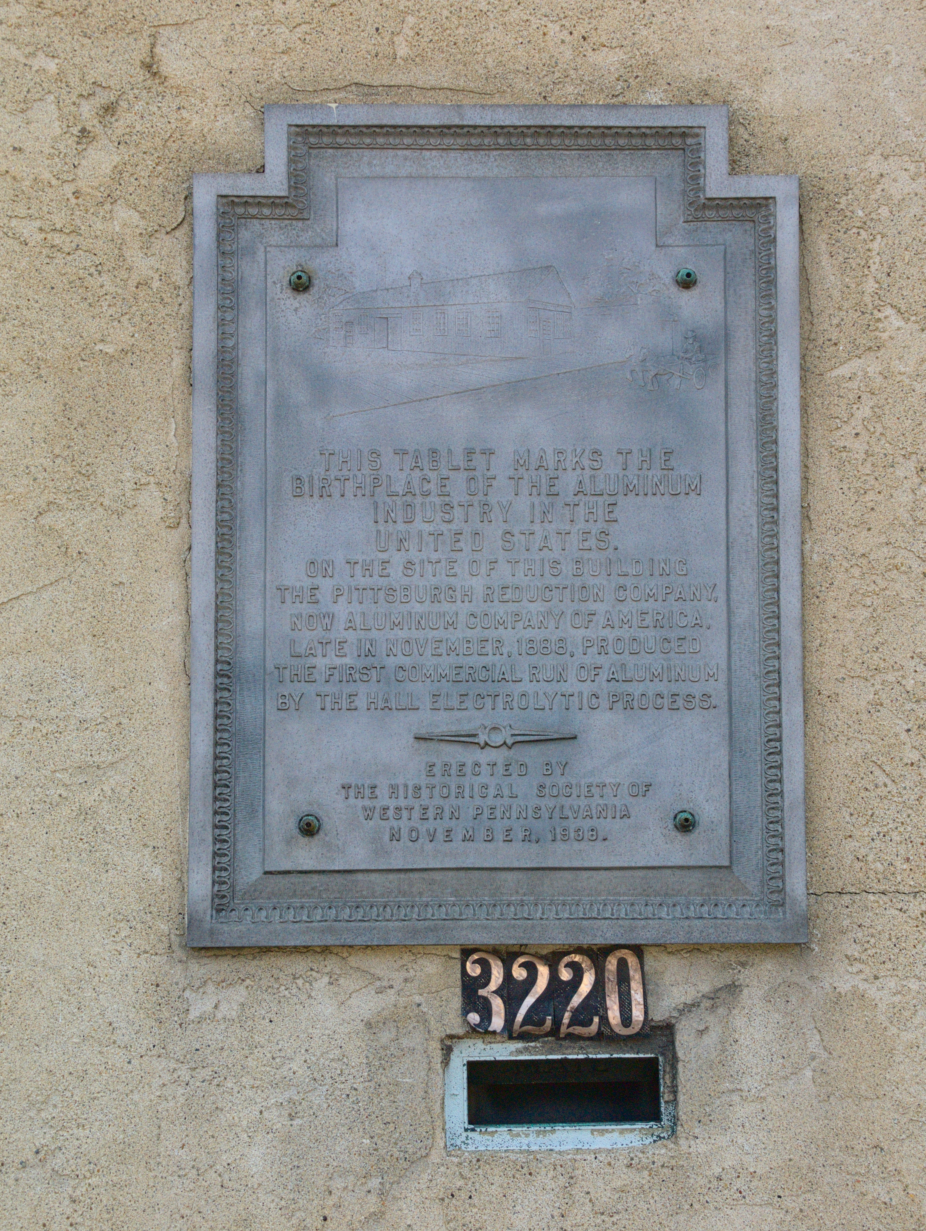 This tablet marks the birthplace of the aluminum industry in the United States. On the site of this building the Pittsburgh Reduction Company, now Aluminum Company of America, late in November, 1888, produced the first commercial run of aluminum by the Hall Electrolytic Process. Erected by the Historical Society of Western Pennsylvania November, 1938. 3220. See also